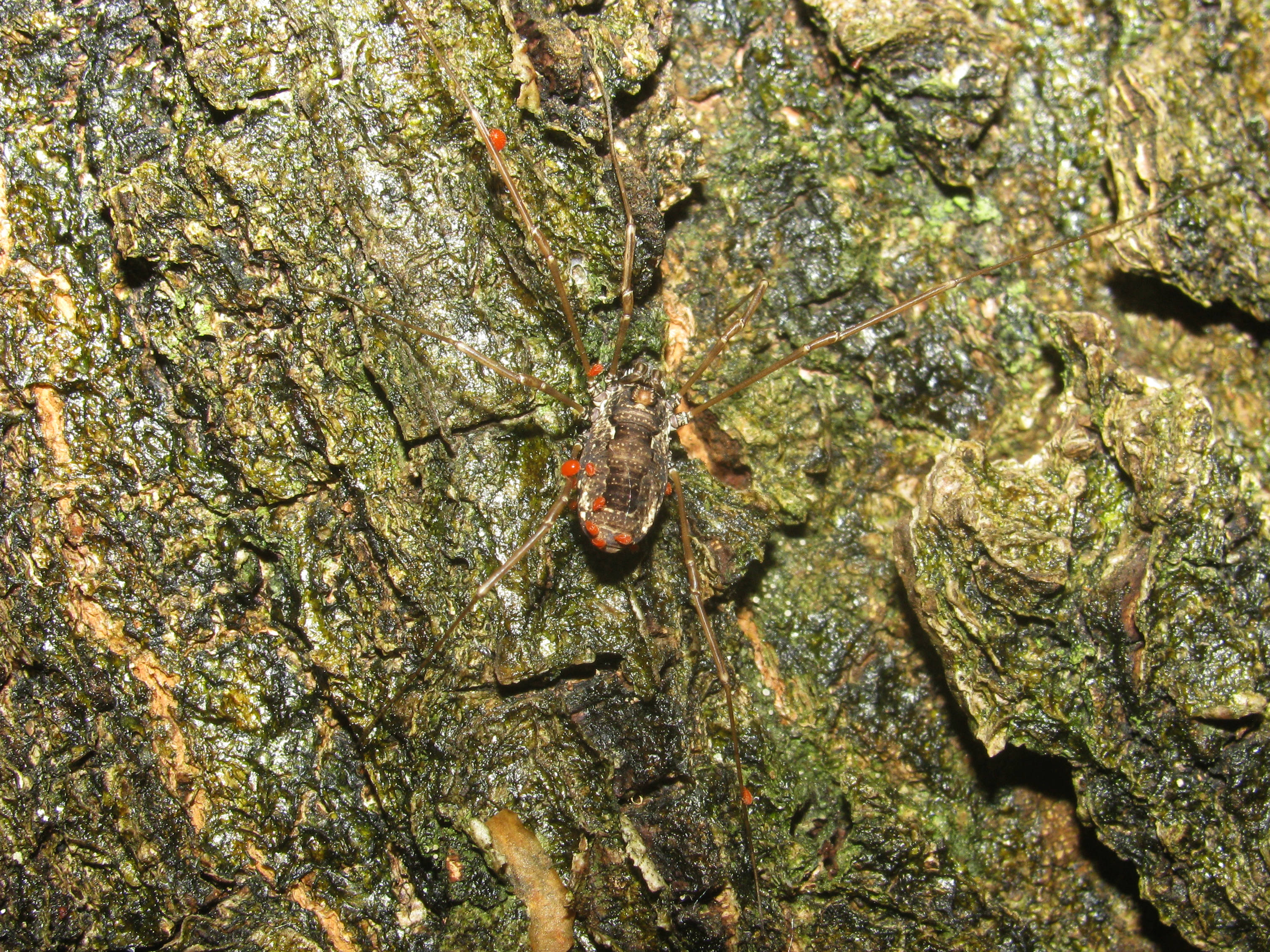 Mite larva(e) of either family Trombidiidae or Erythraeidae on female Harvestman of species Platybunus pinetorumLocation: Reeenberg, Veluwe, NetherlandsKeywords: Opiliones, Harvestmen, mites, Acari, larva, parasite, parasitism